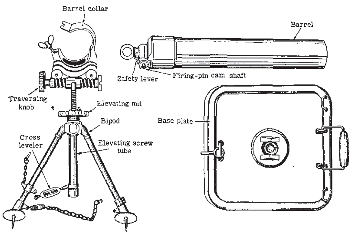 Japanese Type 99 81mm Mortar Parts